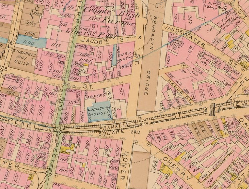 This is an 1885 street map of the Franklin Square area of Manhattan. Detail from Plate 1, Robinson, E. & Pidgeon, R. H. Robinson's Atlas of the City of New York (New York: E. Robinson, 1885). FOR KEY TO MAP SYMBOLS, CLICK HERE.